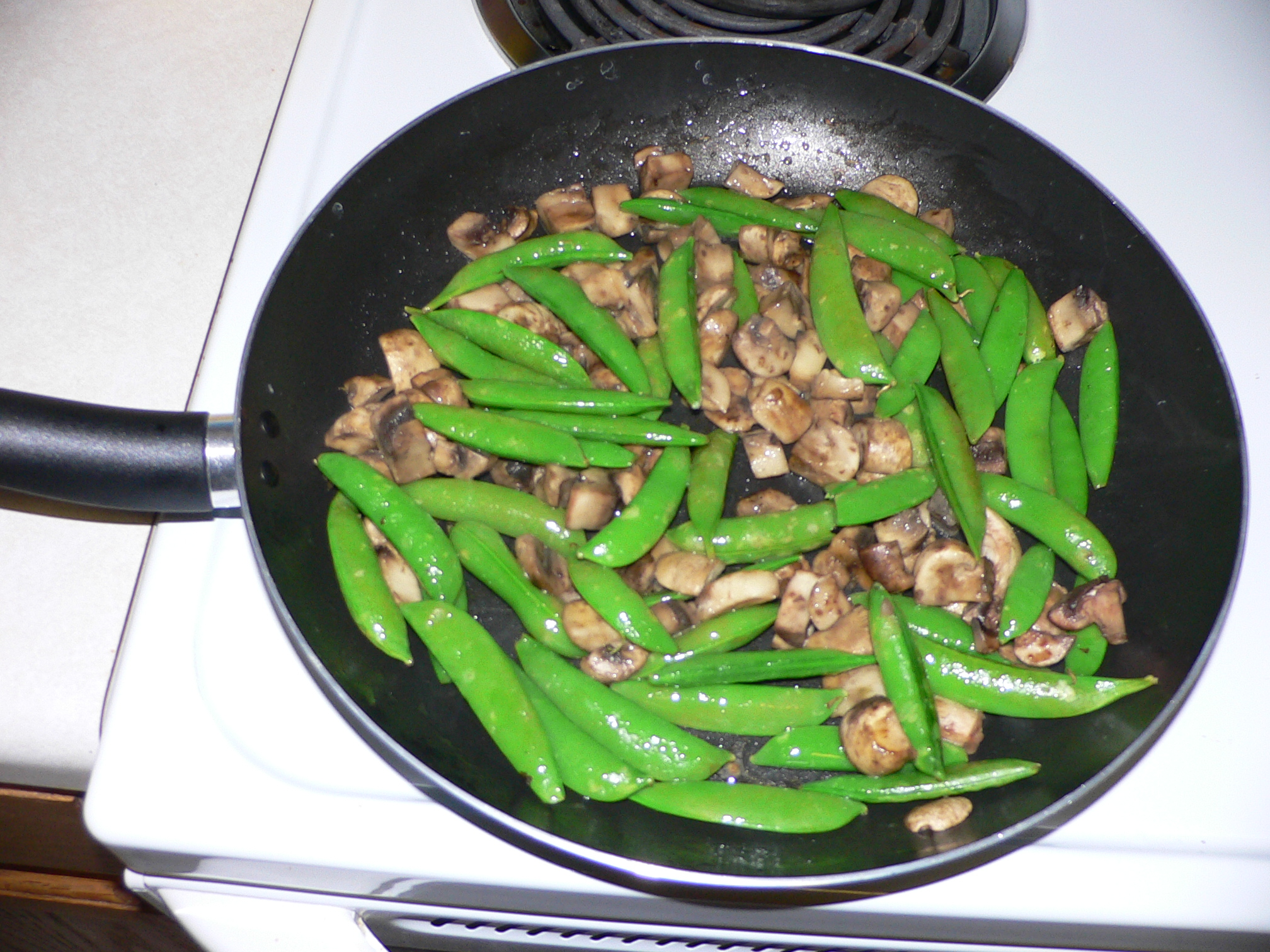 Myself cooking chicken marsala with mushrooms and sugar snap peas